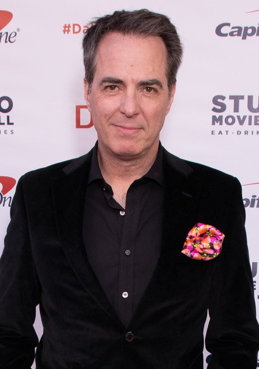 This photo was taken by John Strange, Selig Polyscope, official photographers for Dallas Film / Dallas International Film Festival.